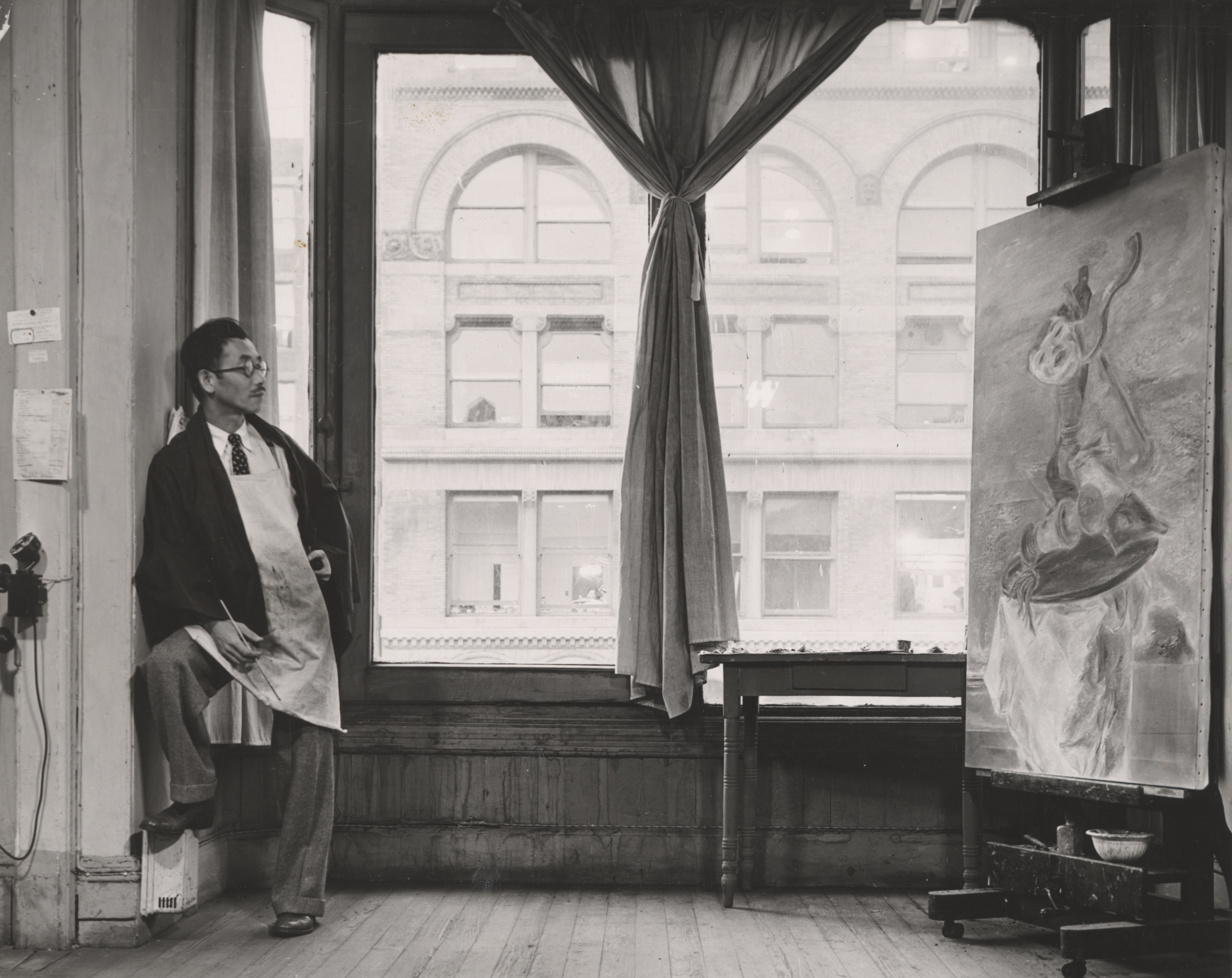 Kuniyoshi in his studio, at 30 East Fourteenth St. in New York, N.Y., photographed for the Federal Art Project Photographic Division. Kuniyoshi is working on his painting Upside Down Table and Mask Identification on verso (handwritten and stamped): New York City W.P.A. Art Project; Photography Division; 110 King Street Negative No.: 5353-8; Date: 10/31/40; Photographer: Yavno; Title: Y. Kuniyoshi; Location: 30 E. 14 St., Manh.; W.P. No.: 1 ; O.P. No.: 65-1-97-2063.